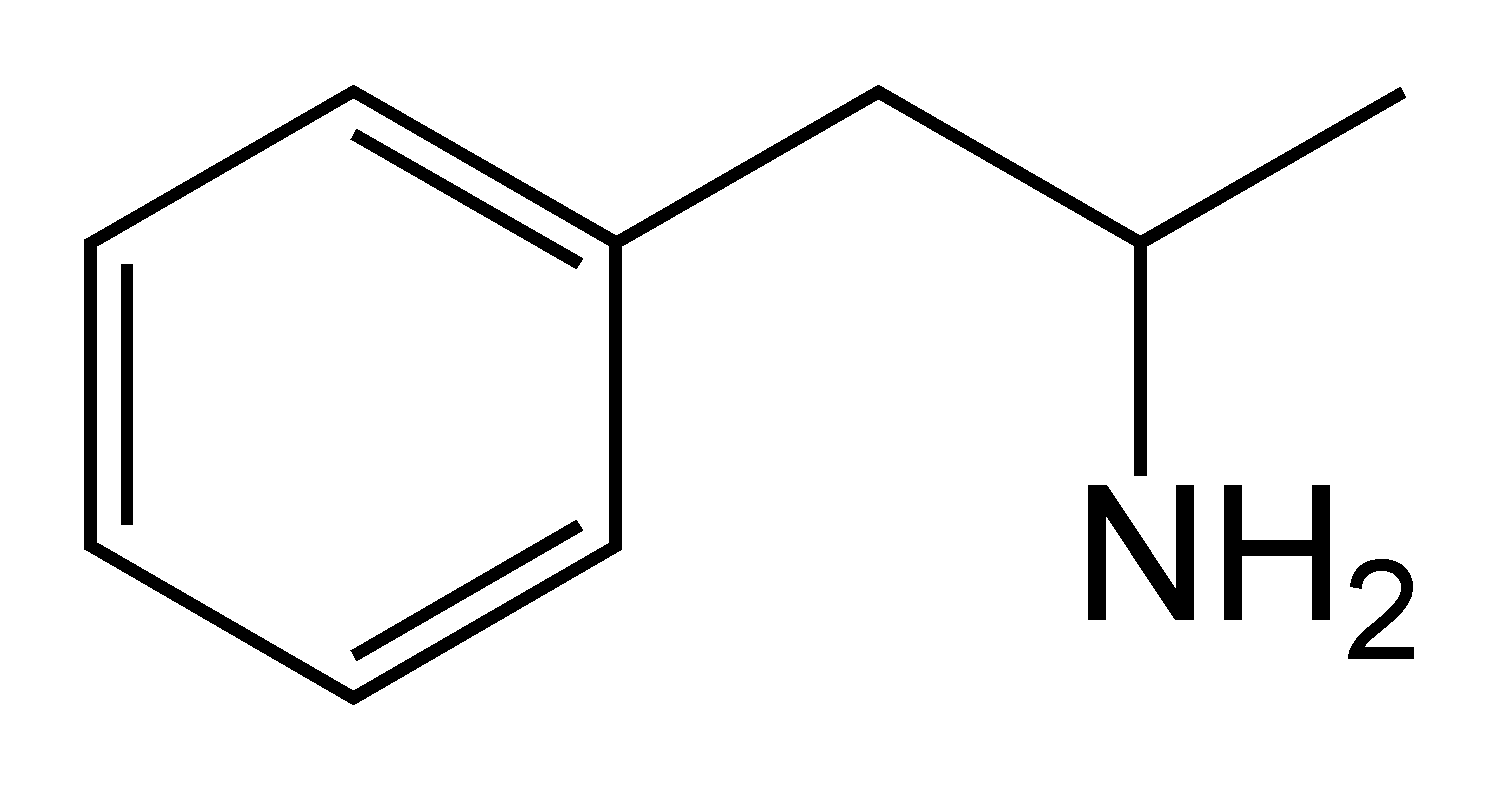 Amphetamine